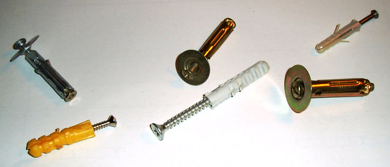 plastic and metal wall plugs